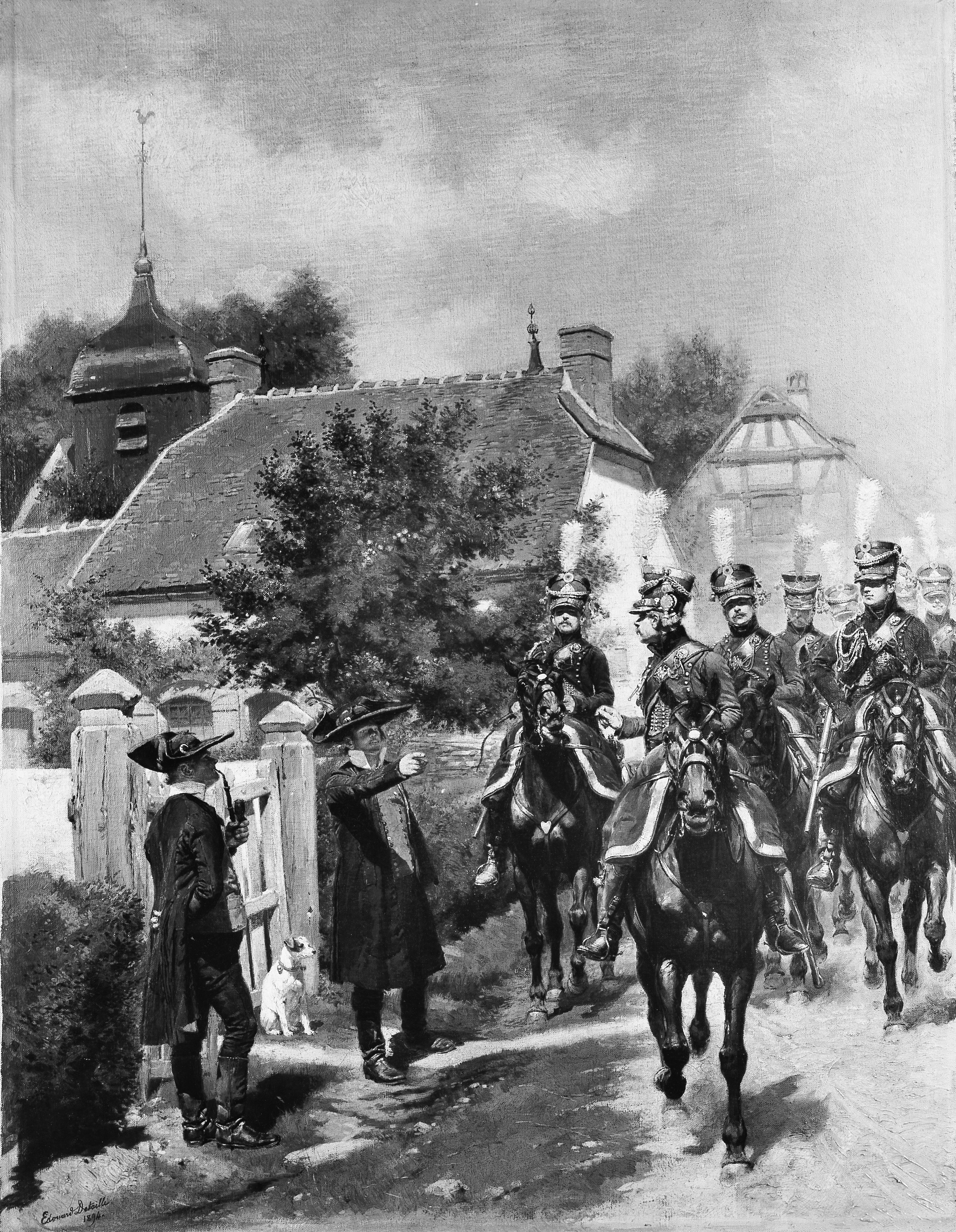 Black and white artwork titled "Gendarmes d'Ordonnance" by Edouard Detaille.